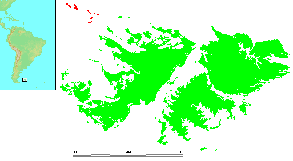 Falkland Islands - Jason Islands.PNG